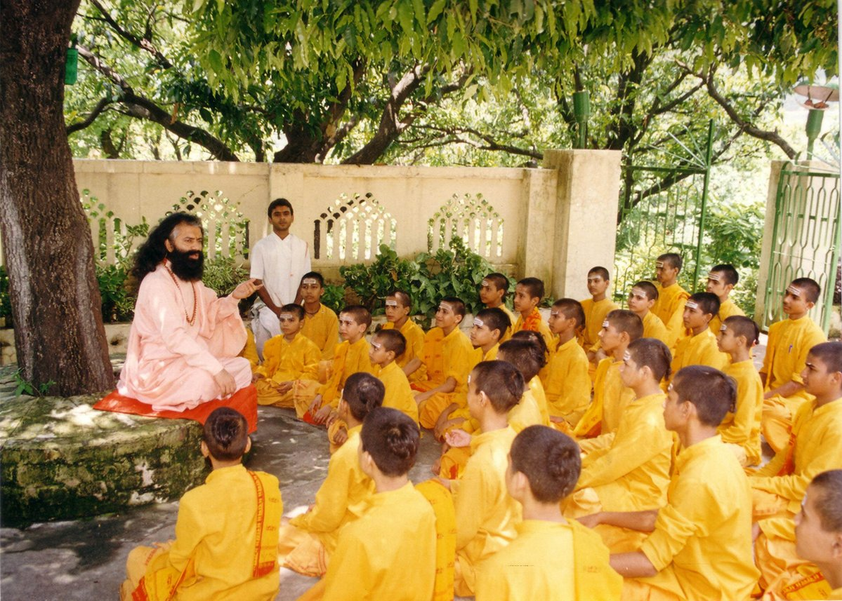 Gurukul at Parmarth Niketan Ashram